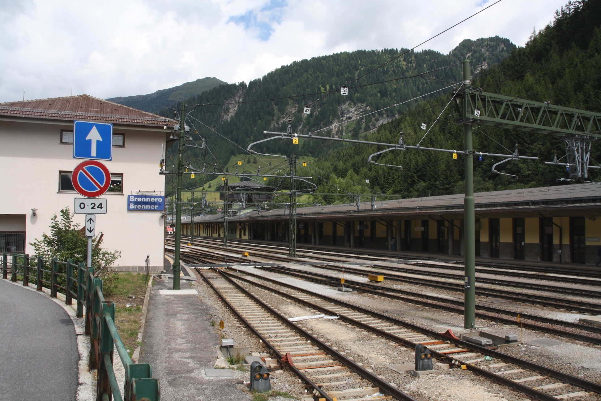 Brenner Pass (Italian: Passo del Brennero